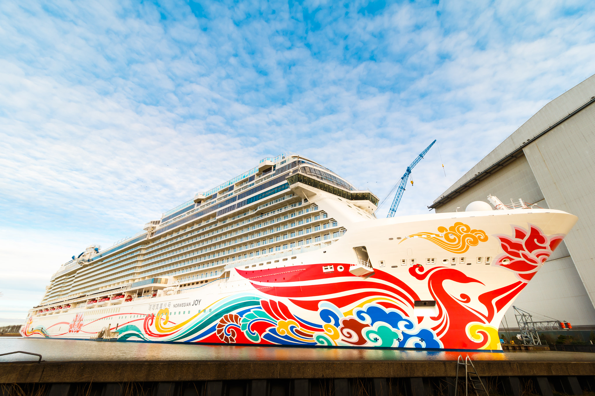 500px provided description: Norwegianjoy [#water ,#blue ,#clouds ,#ship ,#papenburg ,#meyerwerft ,#norwegian joy]